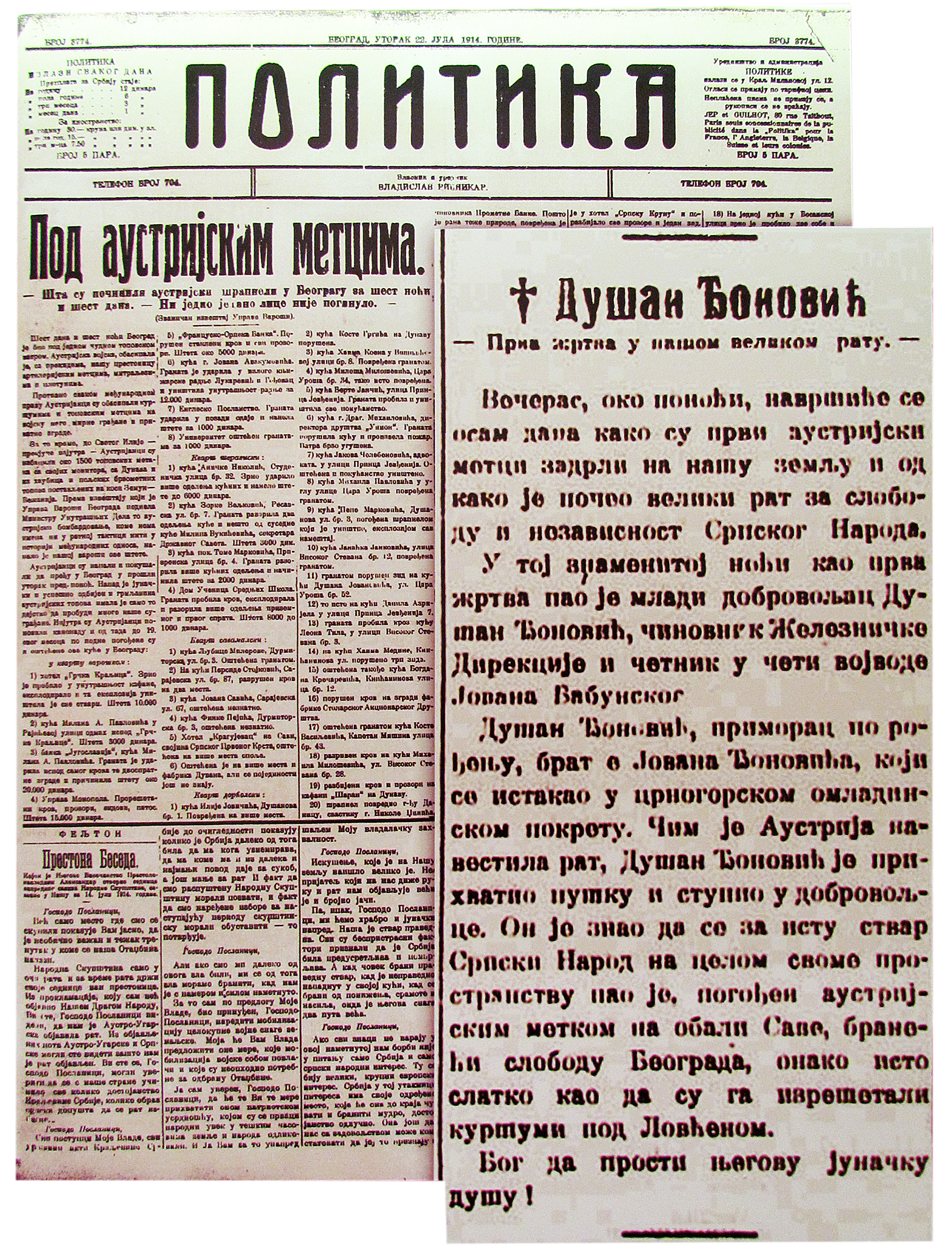 Dušan Đonović, first victim of Great War